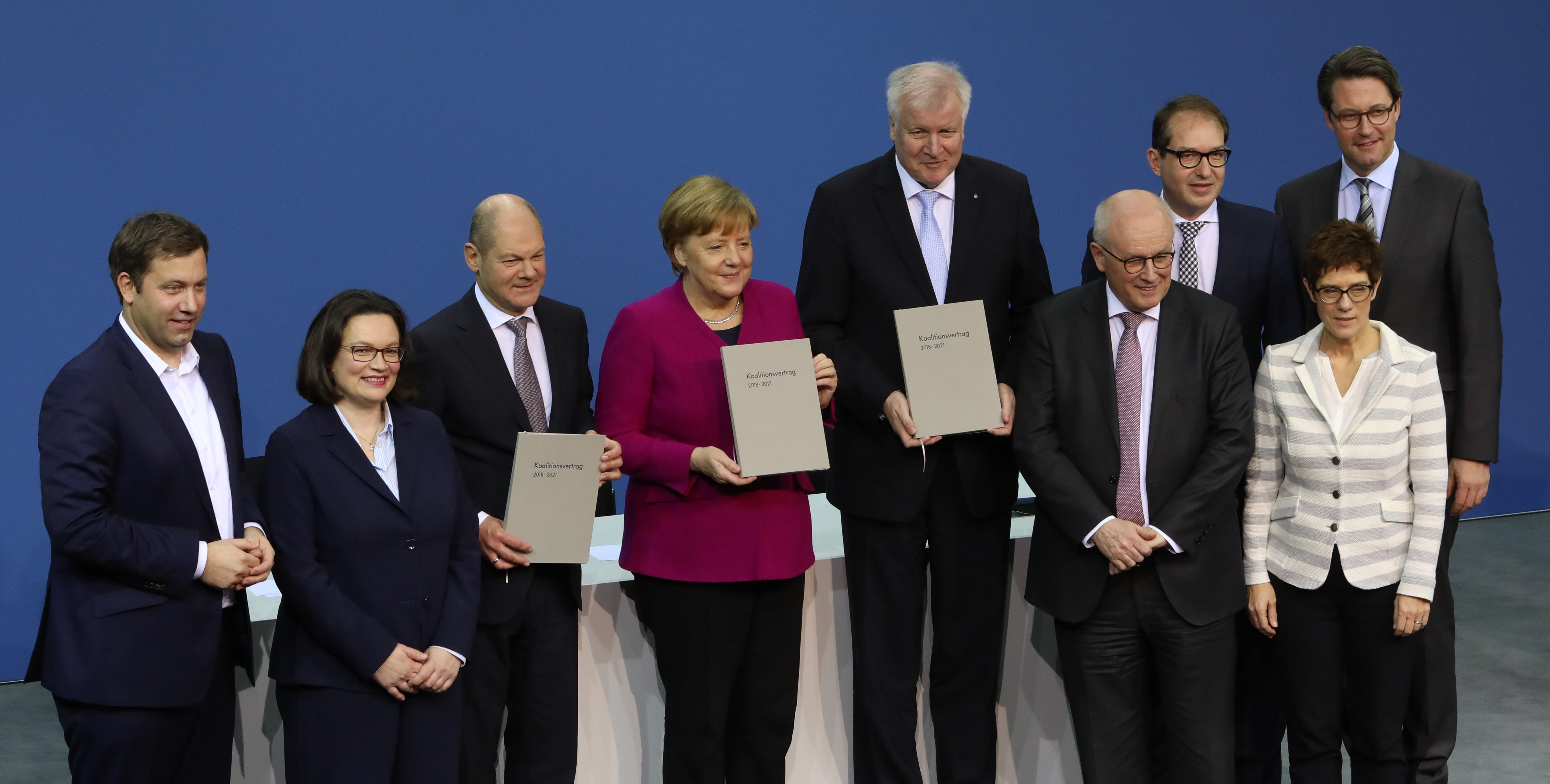 Signing of the coalition agreement for the 19th election period of the Bundestag: Lars Klingbeil; Andrea Nahles; Olaf Scholz; Angela Merkel; Horst Seehofer; Alexander Dobrindt; Volker Kauder; Annegret Kramp-Karrenbauer; Andreas Scheuer